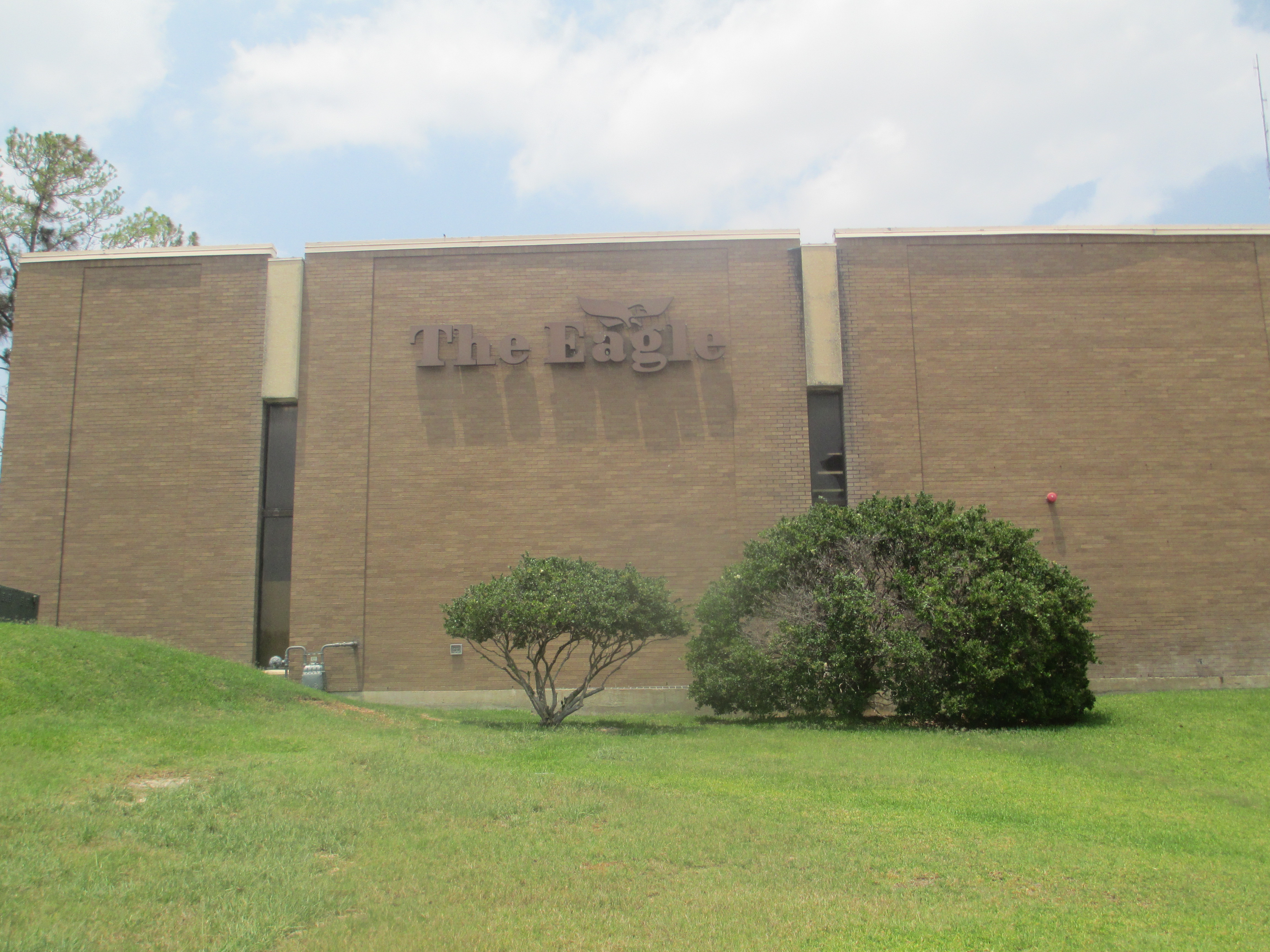 I took photo with Canon camera of The Eagle newspaper office in Bryan, TX.